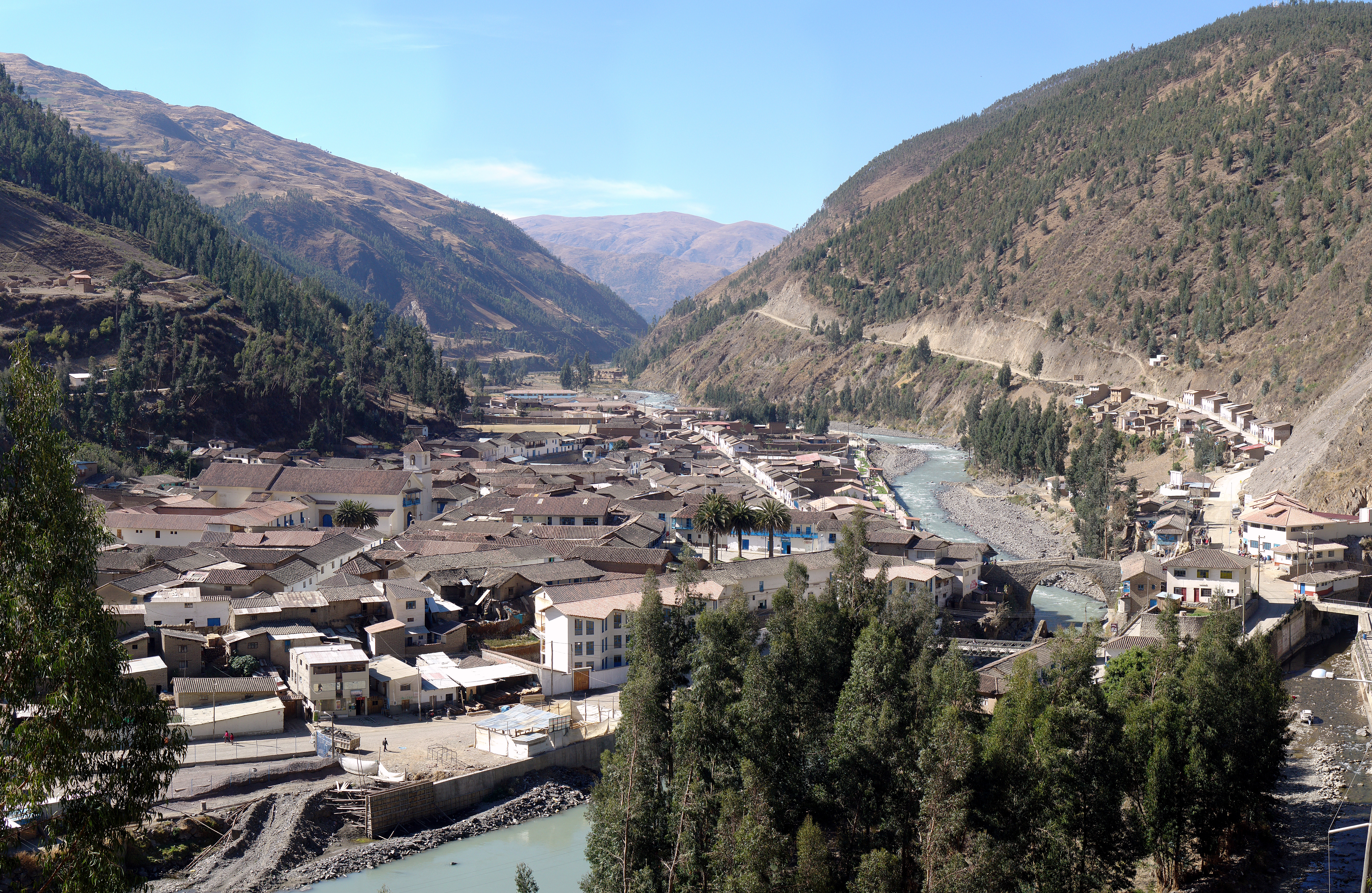 Please, have this description accessible to all by translating it in different languages.